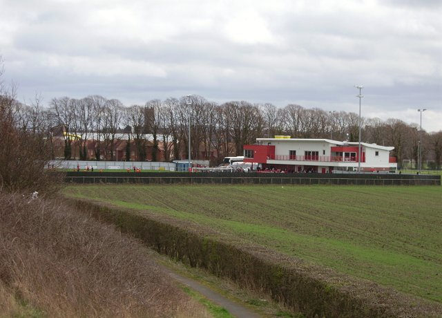 Ludlow Town FC. Their new Burway Stadium. (Currently named after an American Brewery - not Duff). Beyond the trees are former school playing fields , now houses. Taken from just off the A49 at the start of arable farmland.